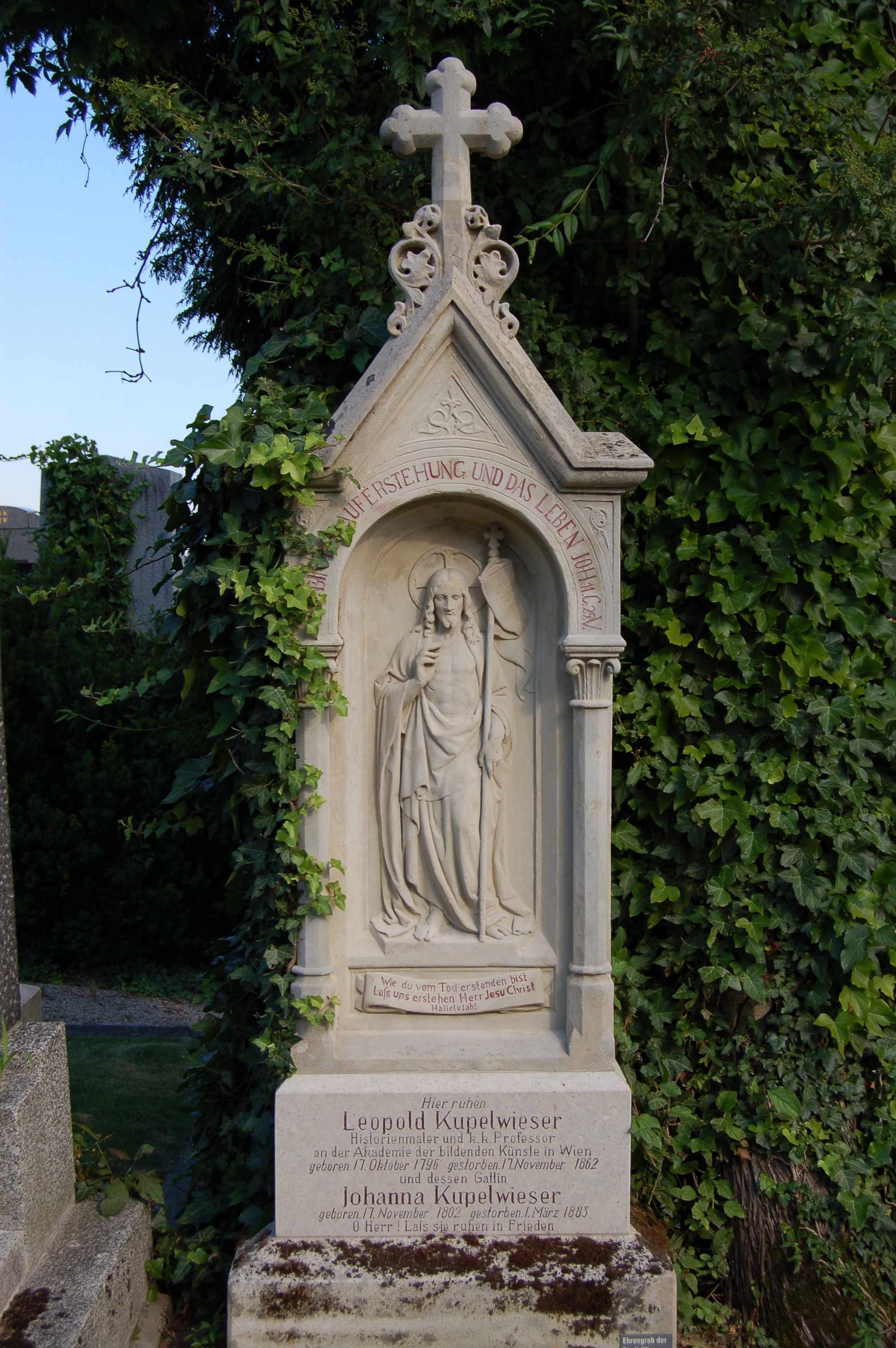 Tomb of painter Leopold Kupelwieser in Grinzing cemetery, Vienna